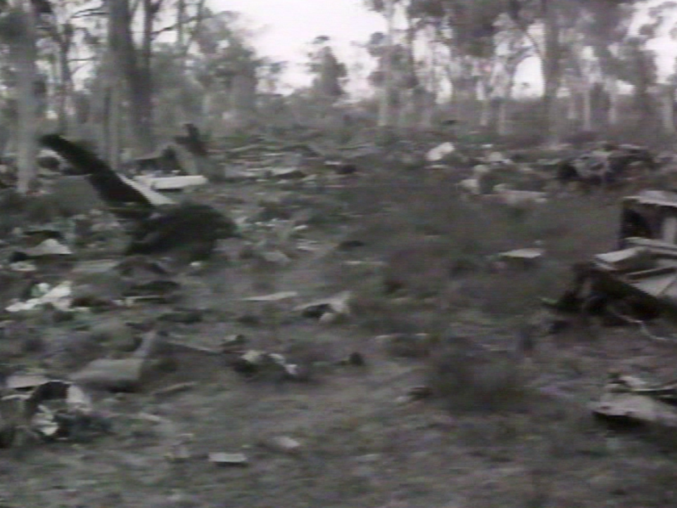 Screenshot of newsreel footage from 26 June 1950 Skymaster air crash in Western Australia